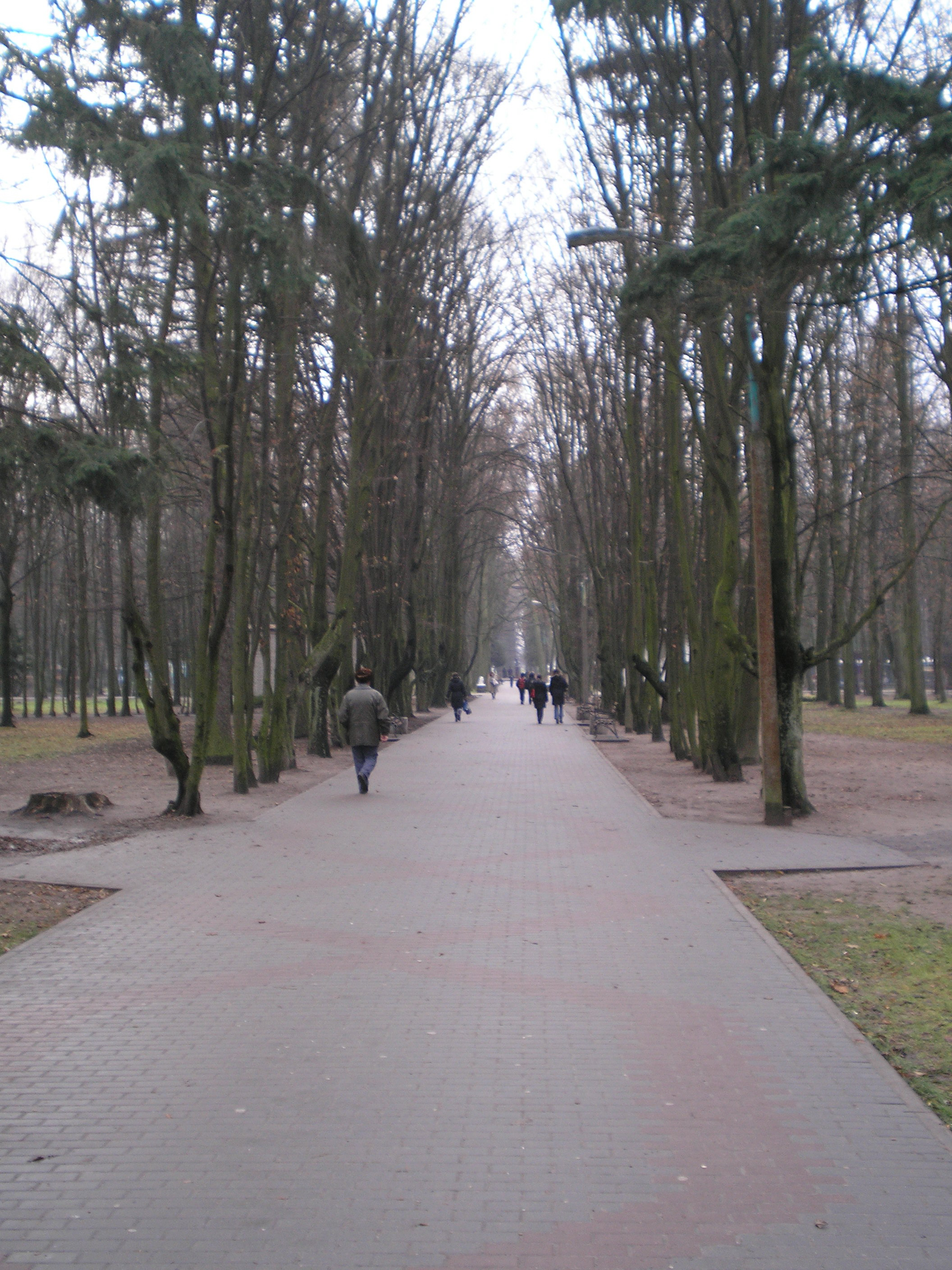 Suvorov Park in Kobrin